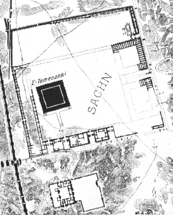 Plan of the ziggurat Etemenanki complex in Babylon